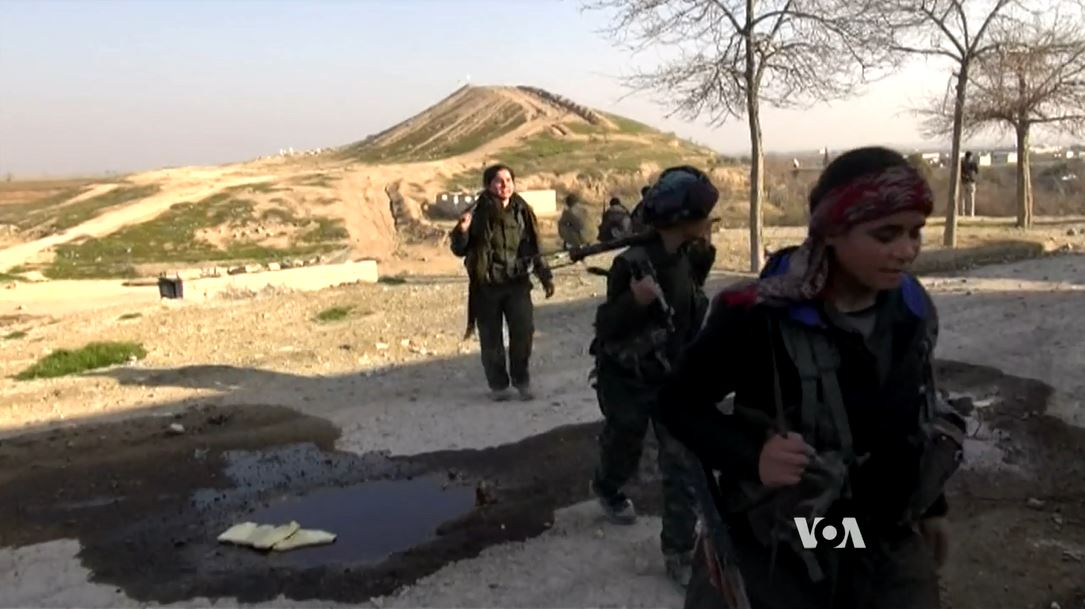 Members of the female brigade of the YPG, the YPJ, at the battle of Kobani, February 2015- VOA